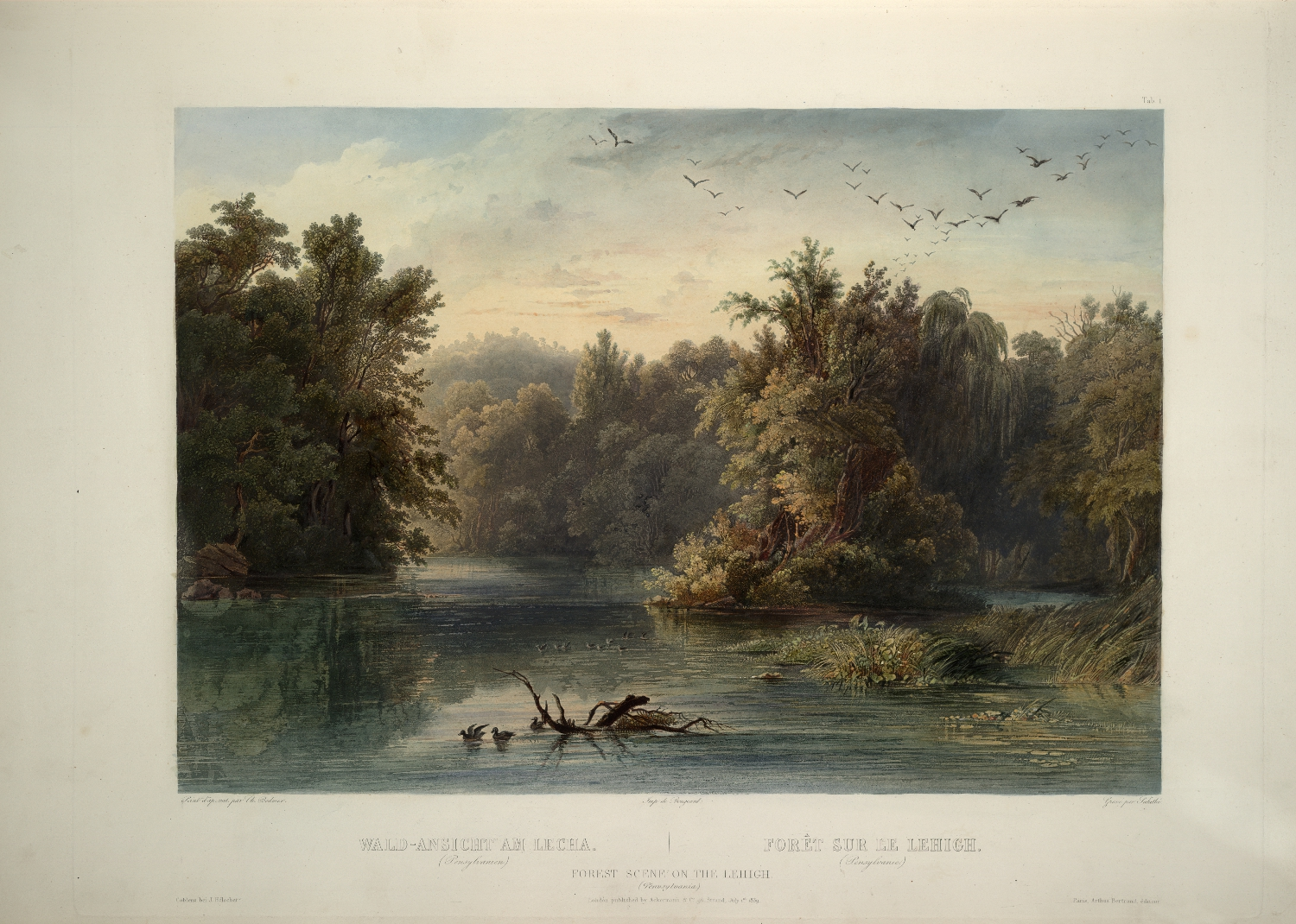 Aquatint by Karl Bodmer (1809 - 1893)